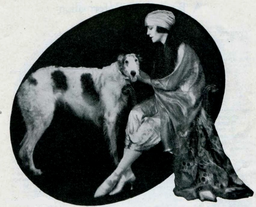 Dancer Joan Sawyer, on page 21 of the April 1921 The Tatler.